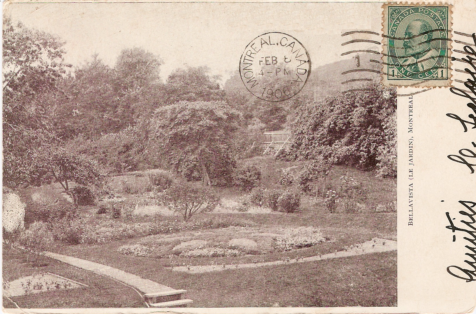 Canadian postcard of Bellavista Gardens in Montreal, addressed to France with a 1903 one-cent stamp.